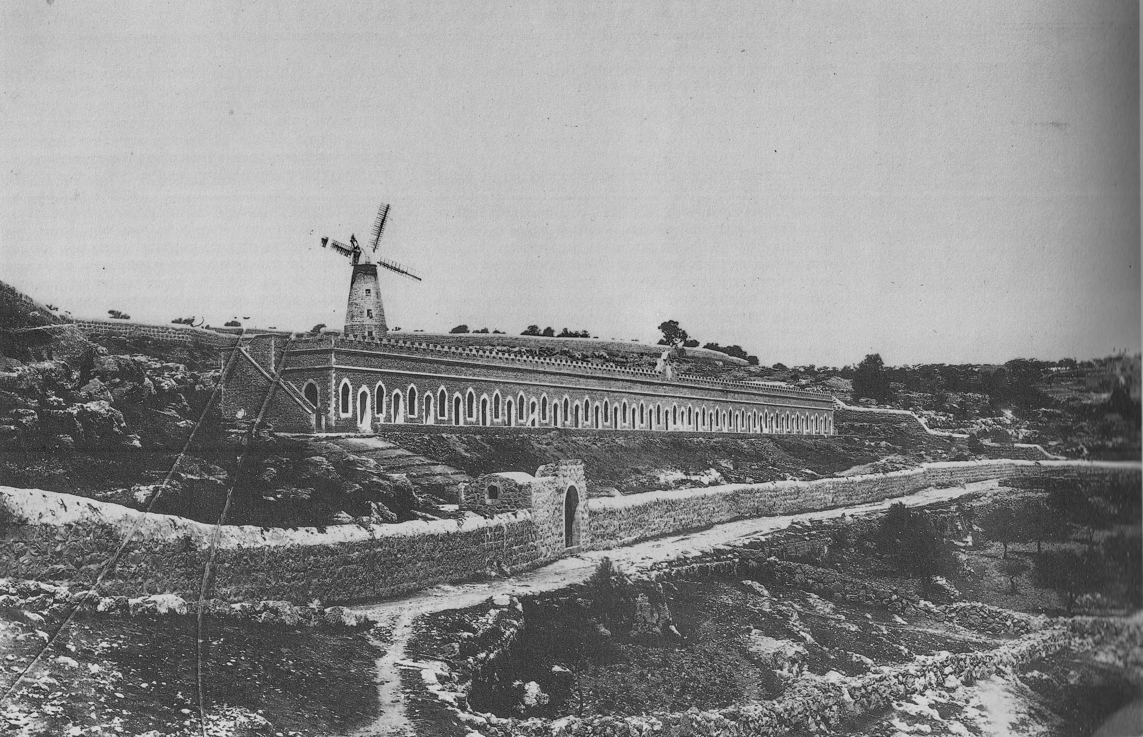 Mishkenot Shaananim